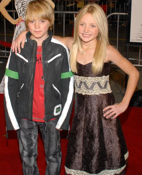 January 7, 2008 - 27 Dresses Premiere in Westwood